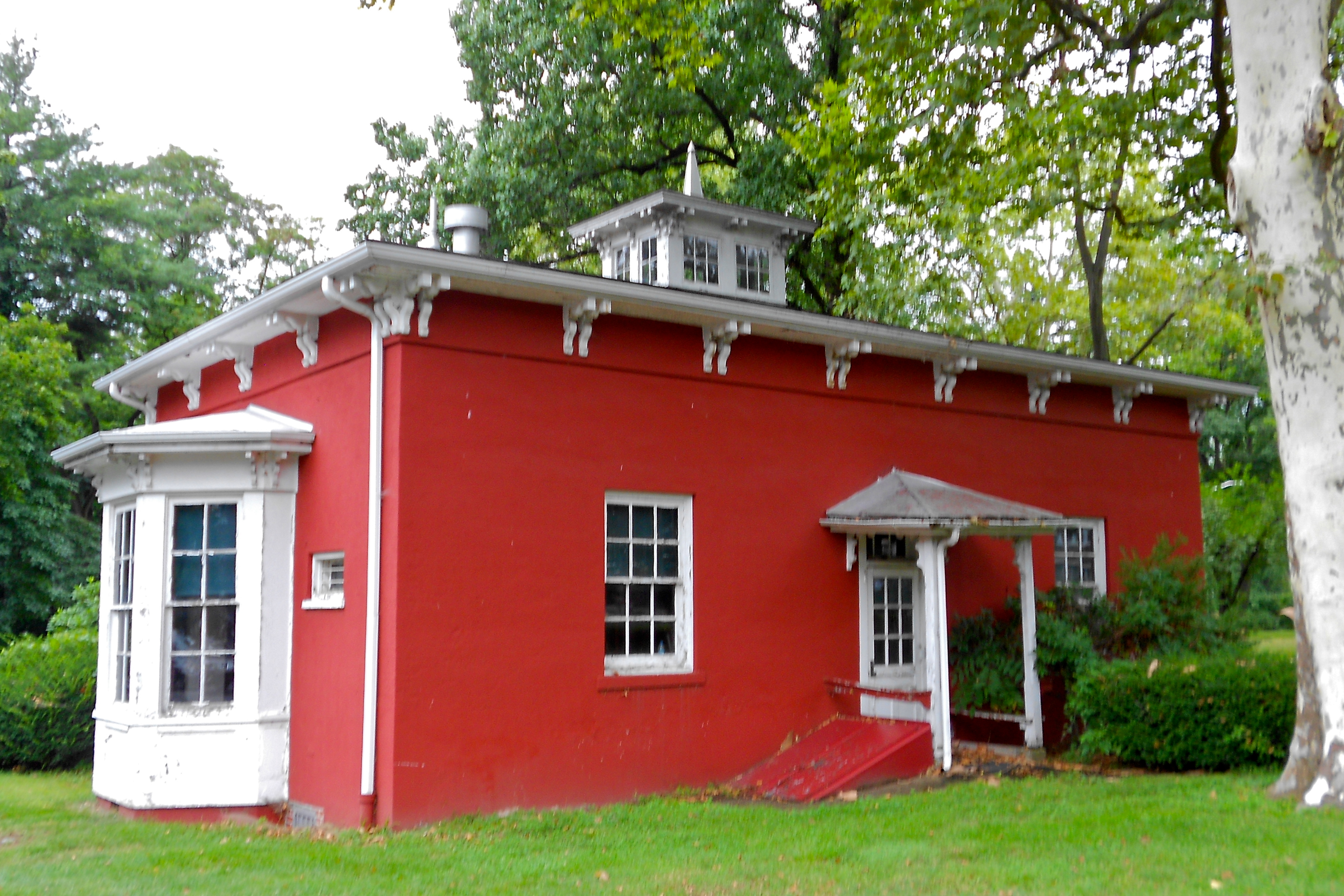 Former Pennsylvania State Lunatic Hospital, one of the older buildings, now called the Dorothea Dix Museum. Listed on the NRHP on January 8, 1986. Located off Cameron Street, Harrisburg, Dauphin County, Pennsylvania. .